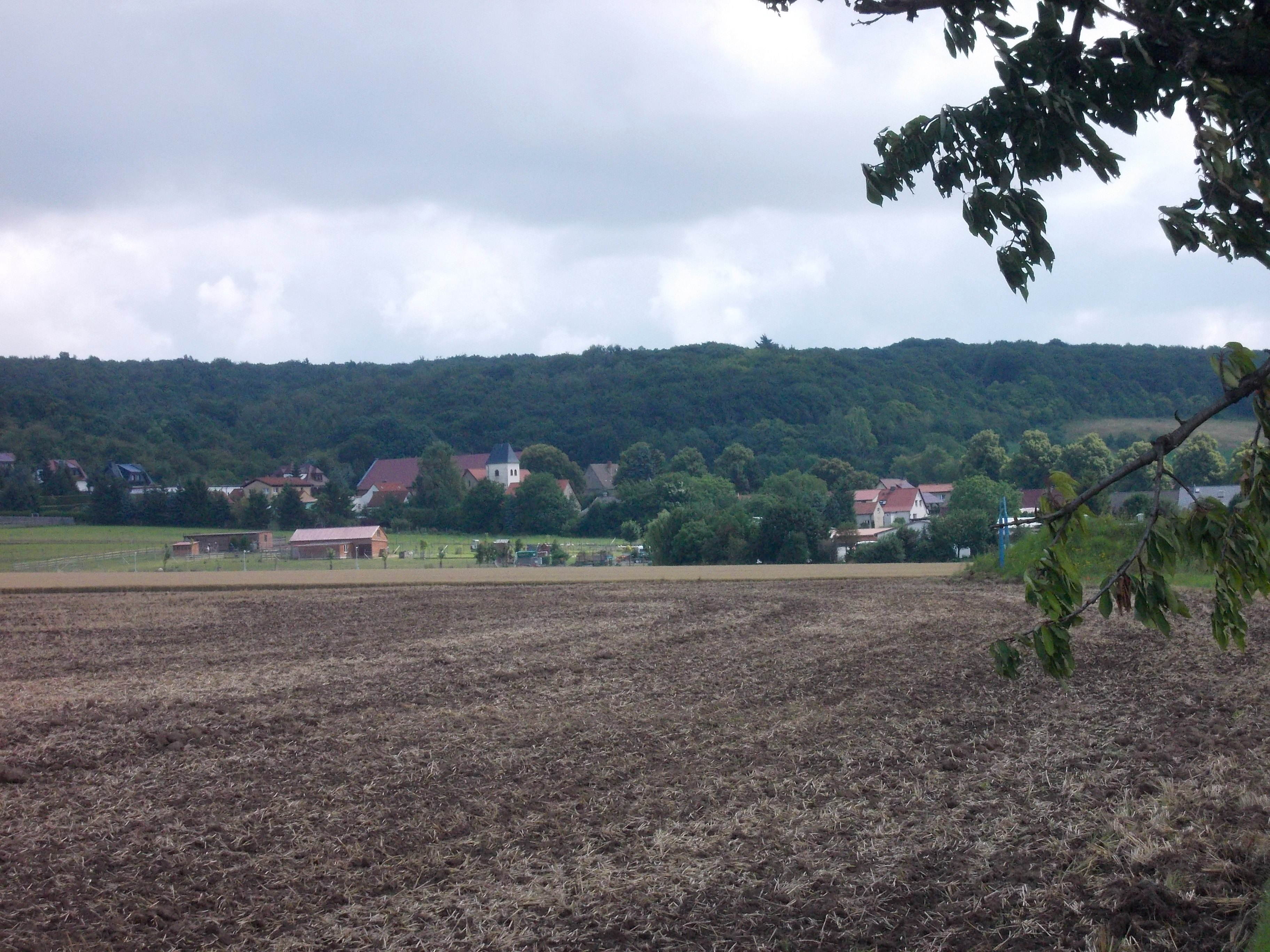 Sittichenbach (Eisleben, Mansfeld-Südharz district, Saxony-Anhalt) from the west